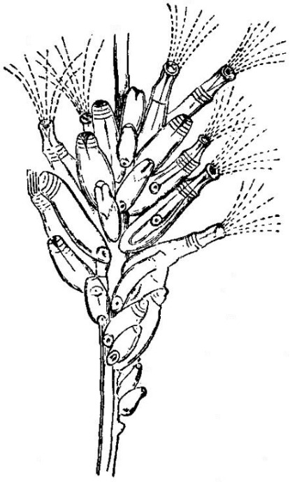 Part of a branch of Bowerbankia pustulosa, showing the thread-like stolon from which arise young and mature zooecia. The tentacles are expanded in some of the latter.